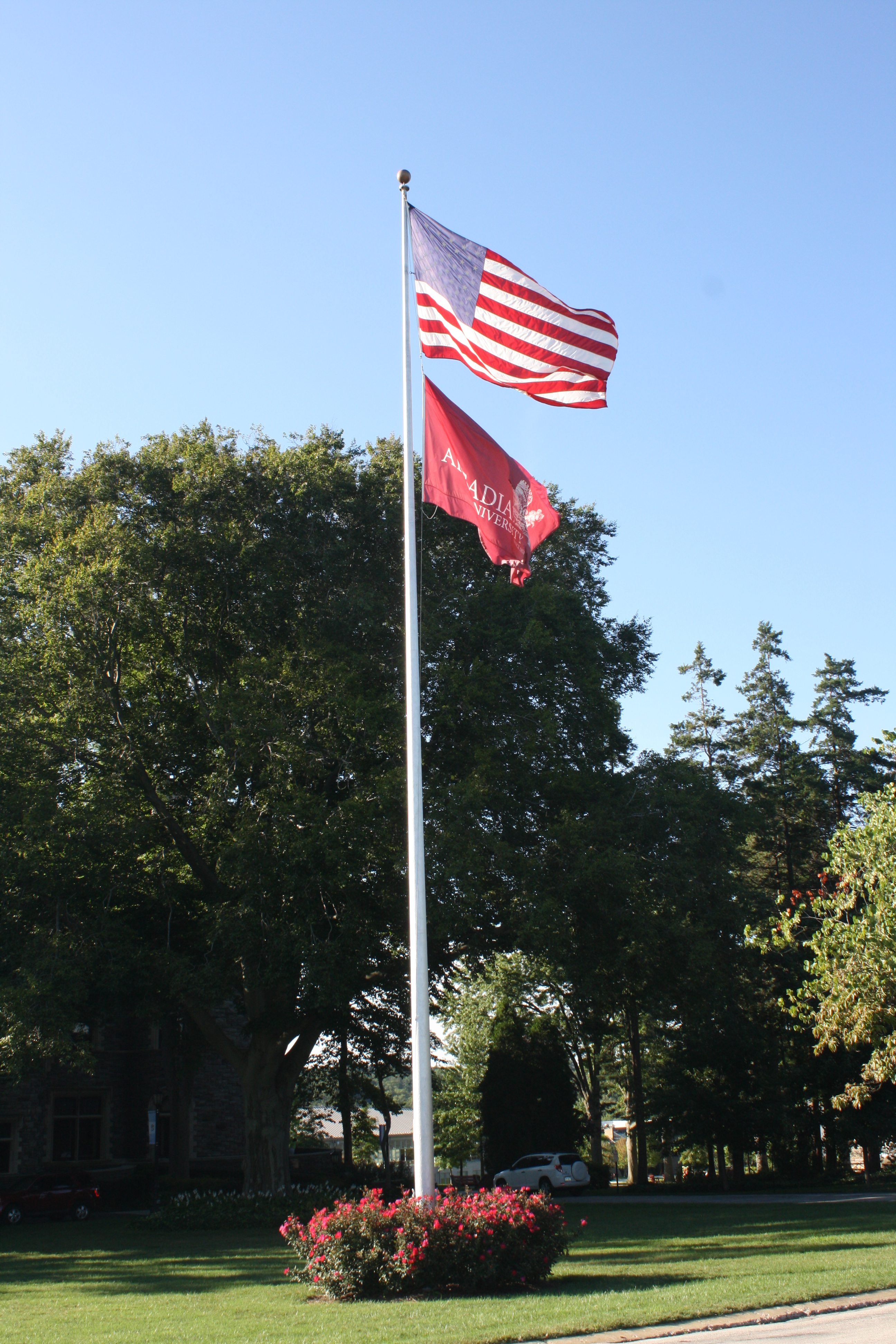 Arcadia University Campus. Site near Easton Road Entrance.